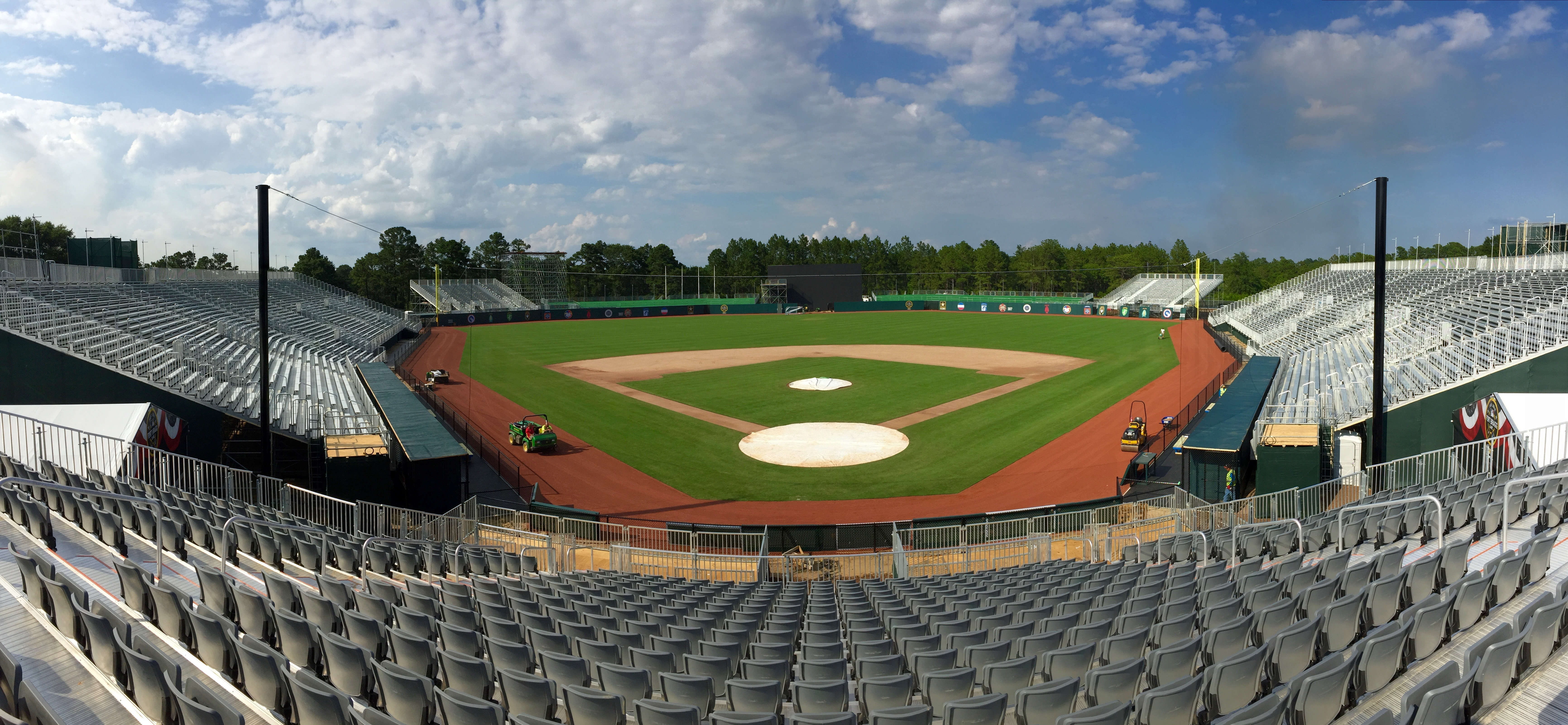 Fort Bragg Field, which was constructed by MLB and the MLBPA,will have a capacity of approximately 12,500, with the vast majority of the seats being reserved for service members and their families. Following the game, in which the Braves will be the home team, the ballpark will be converted to a permanent multi-purpose recreational facility for those who serve at Fort Bragg, a gift courtesy of the Major League Clubs and Players. The joint project was first announced on March 8th, less than four months away from the date of the event. Unit: Fort Bragg Public Affairs Office